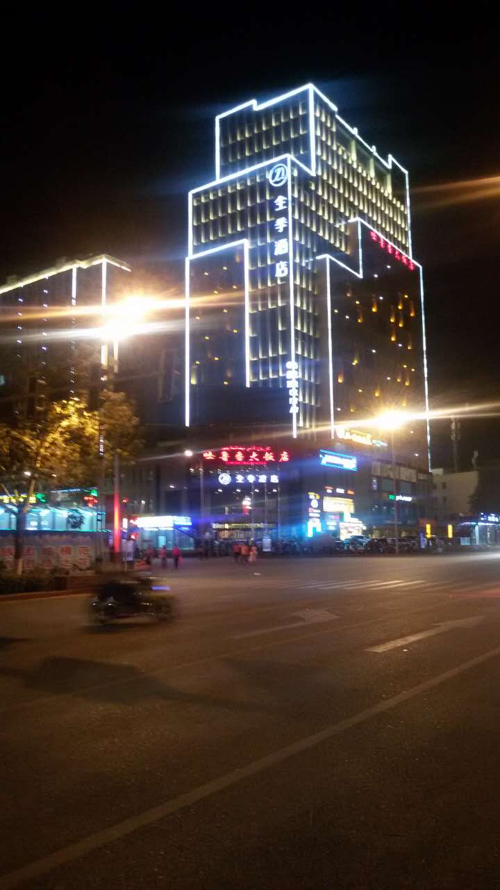 City center of Turpan, Xinjiang in 2016